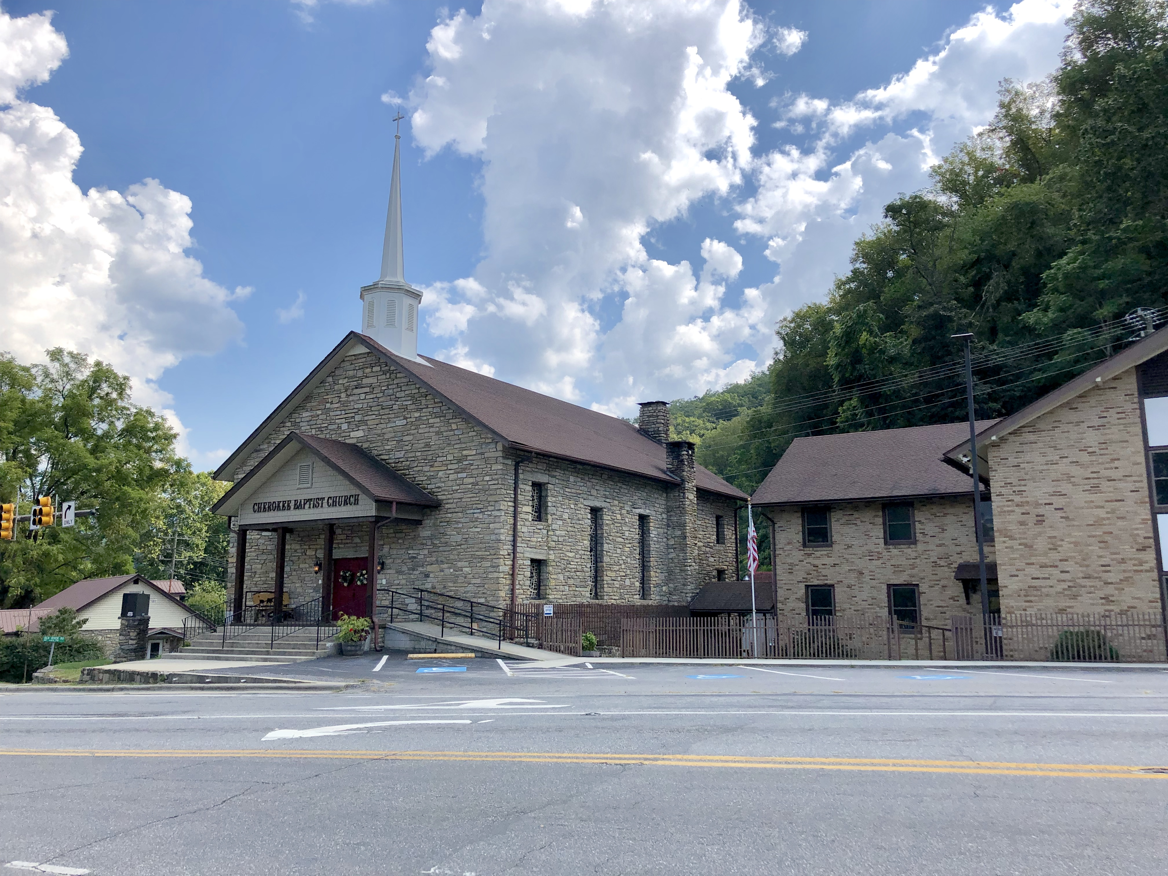 This is Cherokee Baptist Church, located at the intersection of US 19 and US 441 in Cherokee, North Carolina.